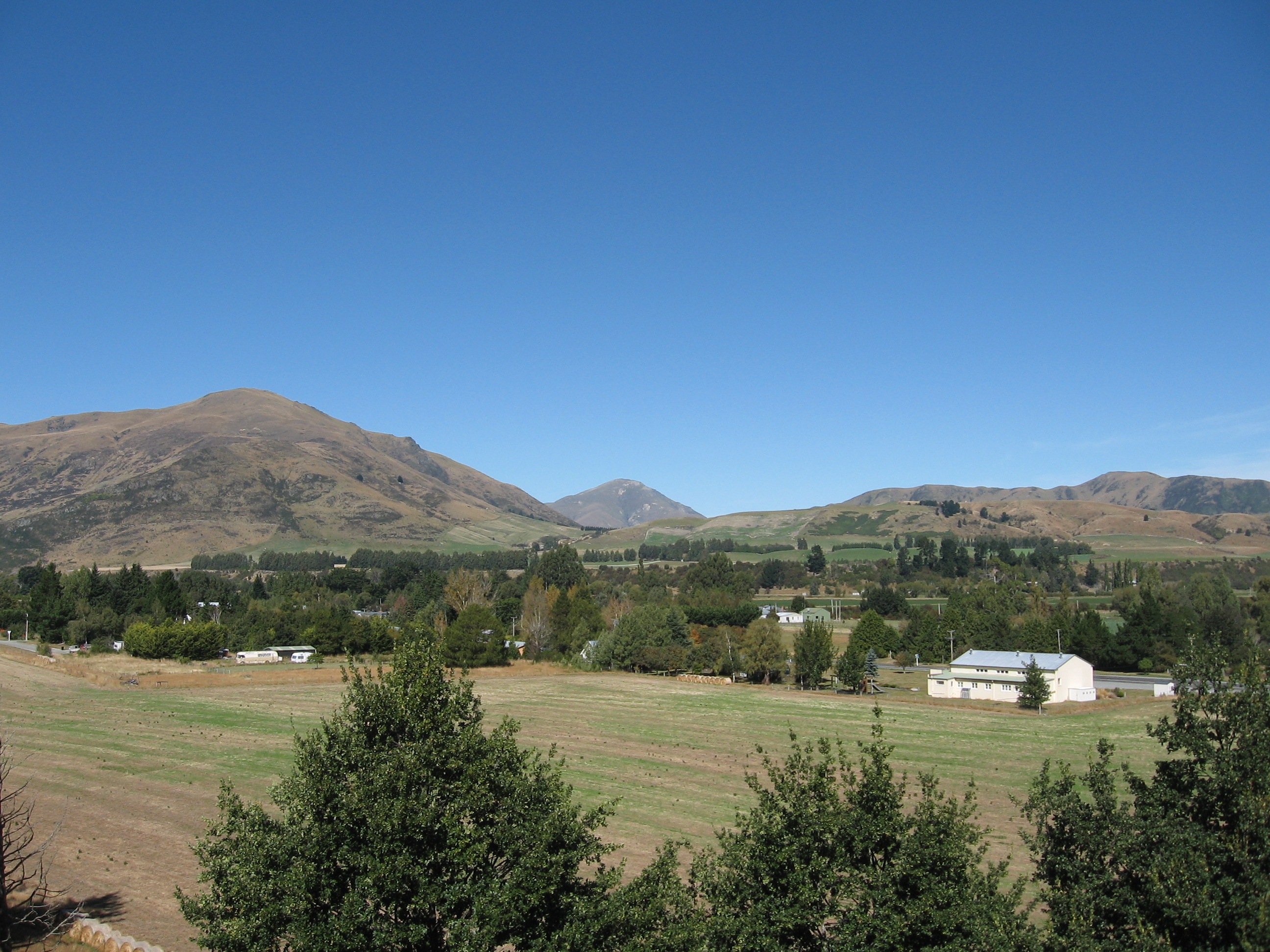 Athol from McKnight's Hill,March 2014